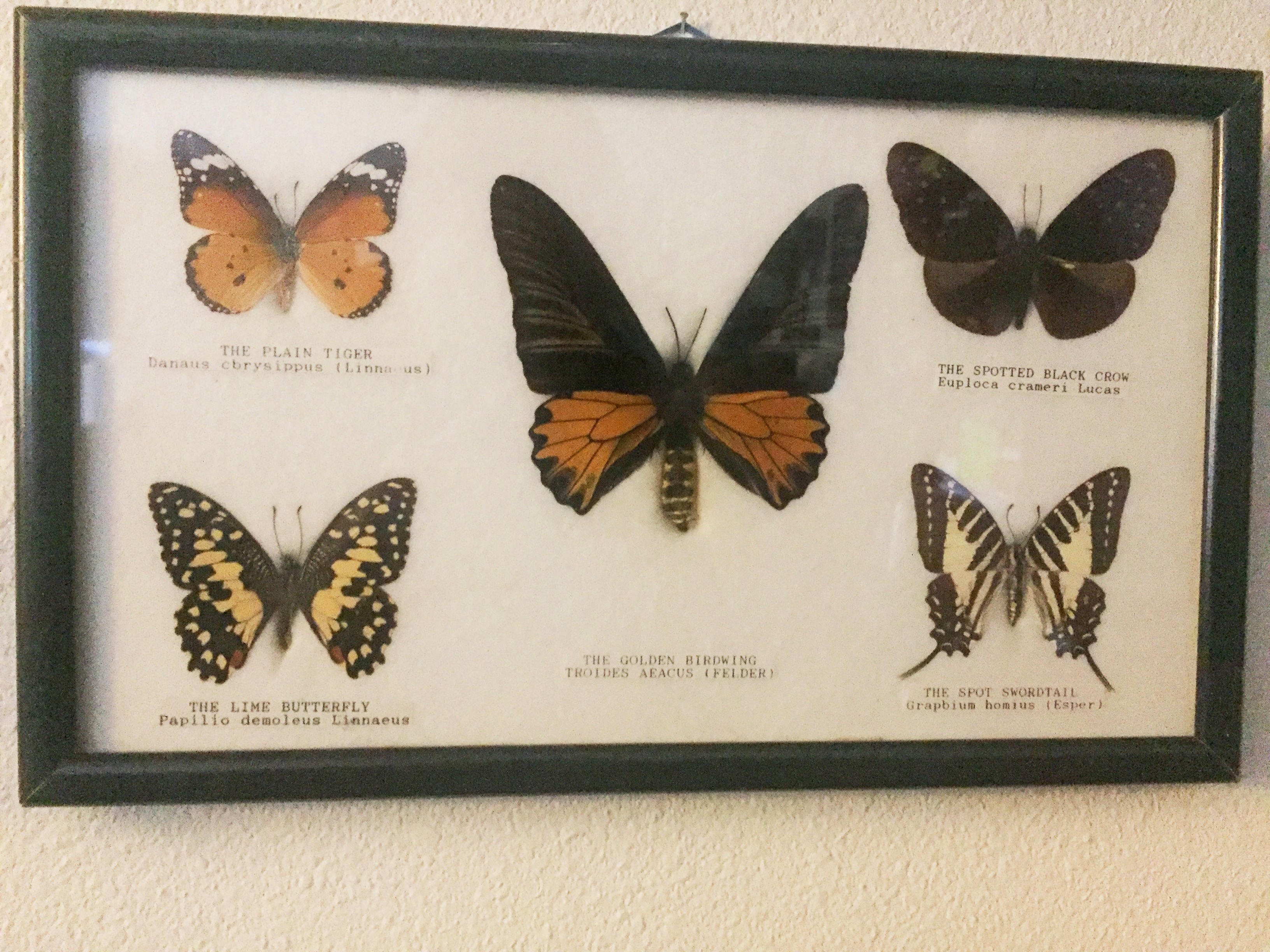 Illustration of butterflies mounted by August Kusche, no date. The species are Plain tiger, Danaus chrysippus (Linnaeus), the Lime butterfly, Papilio demoleus (Linnaeus), the Golden birdwing, Troides aeacus (Felder), the Spotted black crow, Euploca crameri (Lucas) and the Spot swordtail, Graphium nomius (Esper).